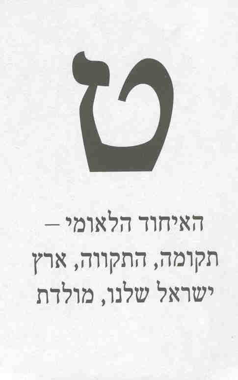 National Union ballot Israel legislative election, 2009